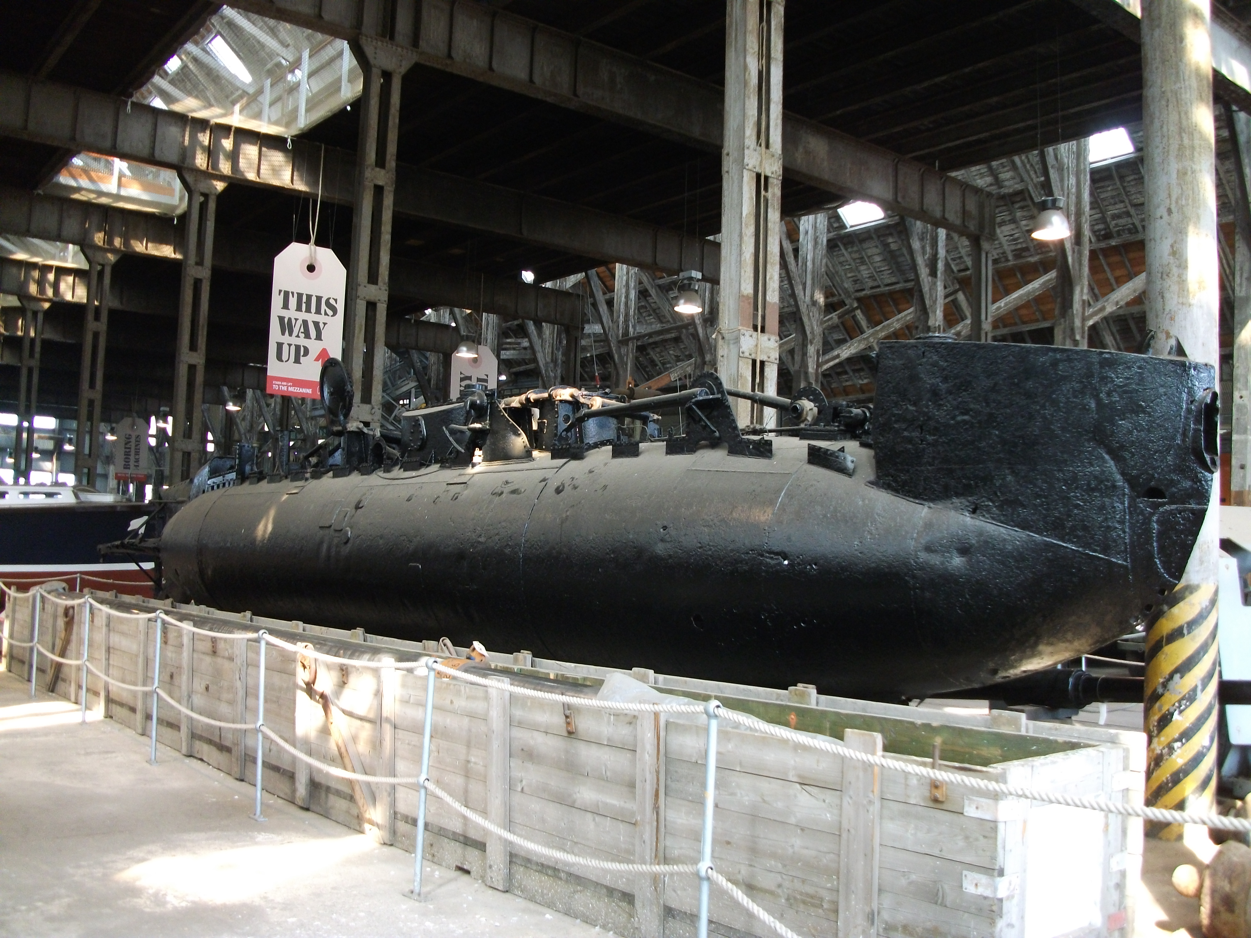 British XE type submarine built 1944. Number XE8 Expunger. Displayed at Chatham Dockyard museum. Used for target practice and sunk 1952. Raised 1973.